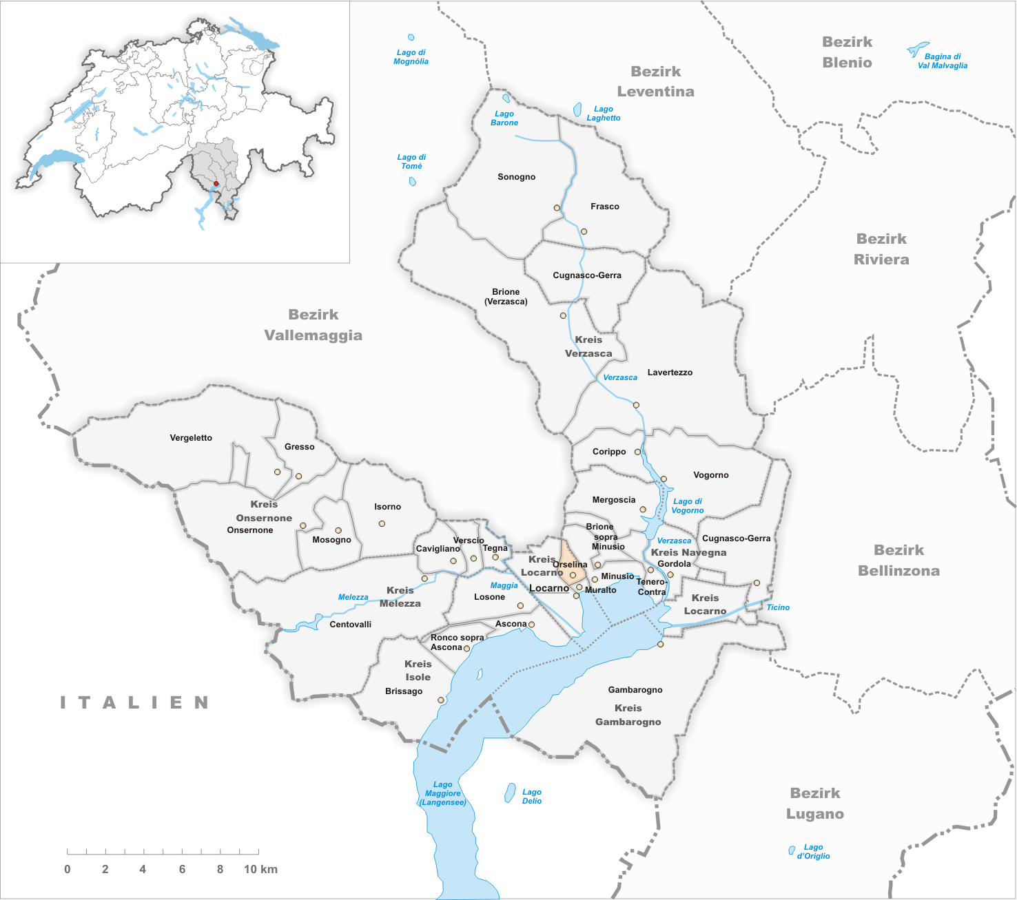 Municipality Orselina Artist: Tschubby